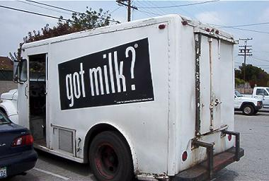 A milk truck in Culver City, California. Taken April 27, 2006